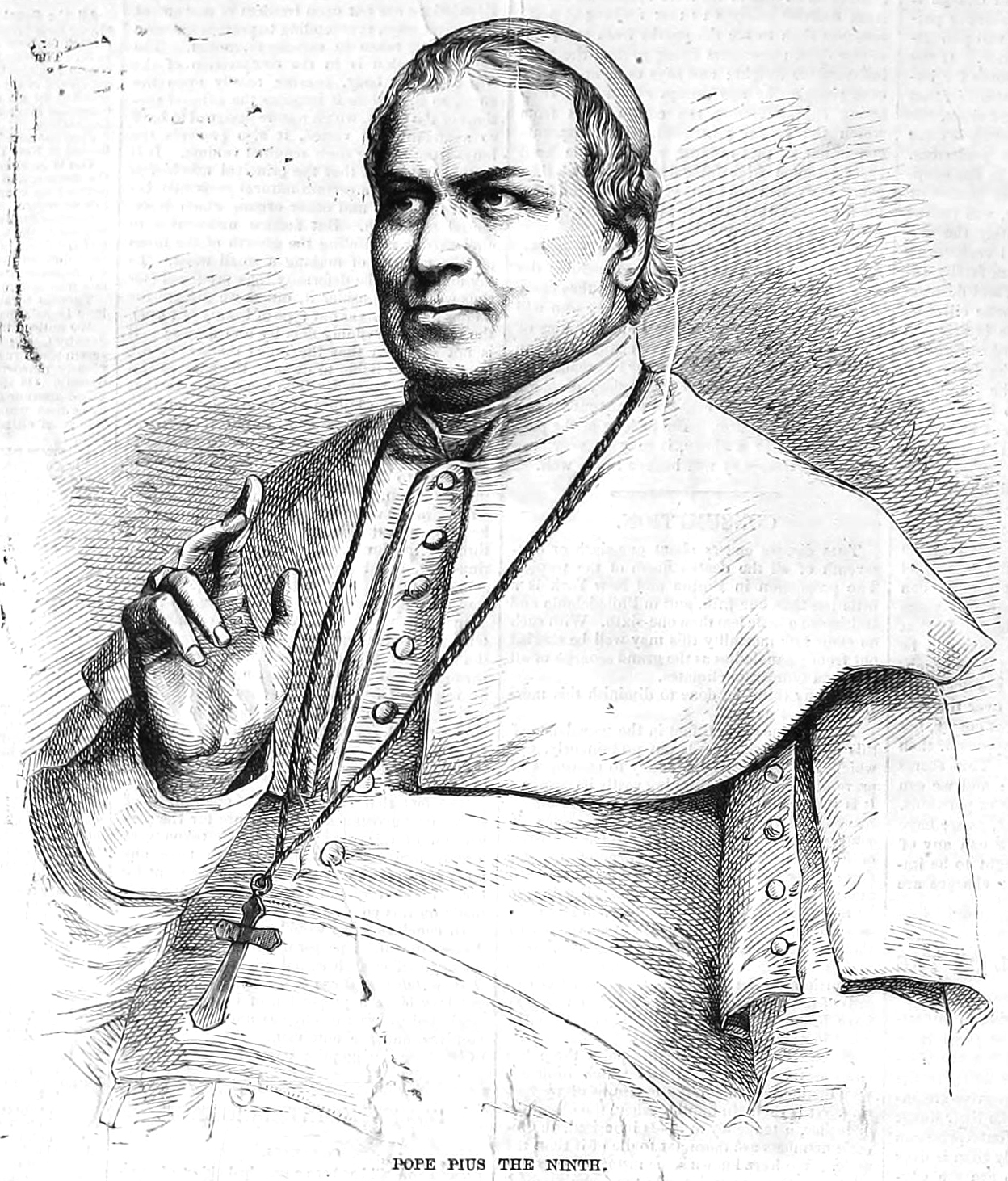 Pope Pius IX, as depicted in Harper's Weekly, volume XI, number 528, published on 9 February 1867. p. 84.